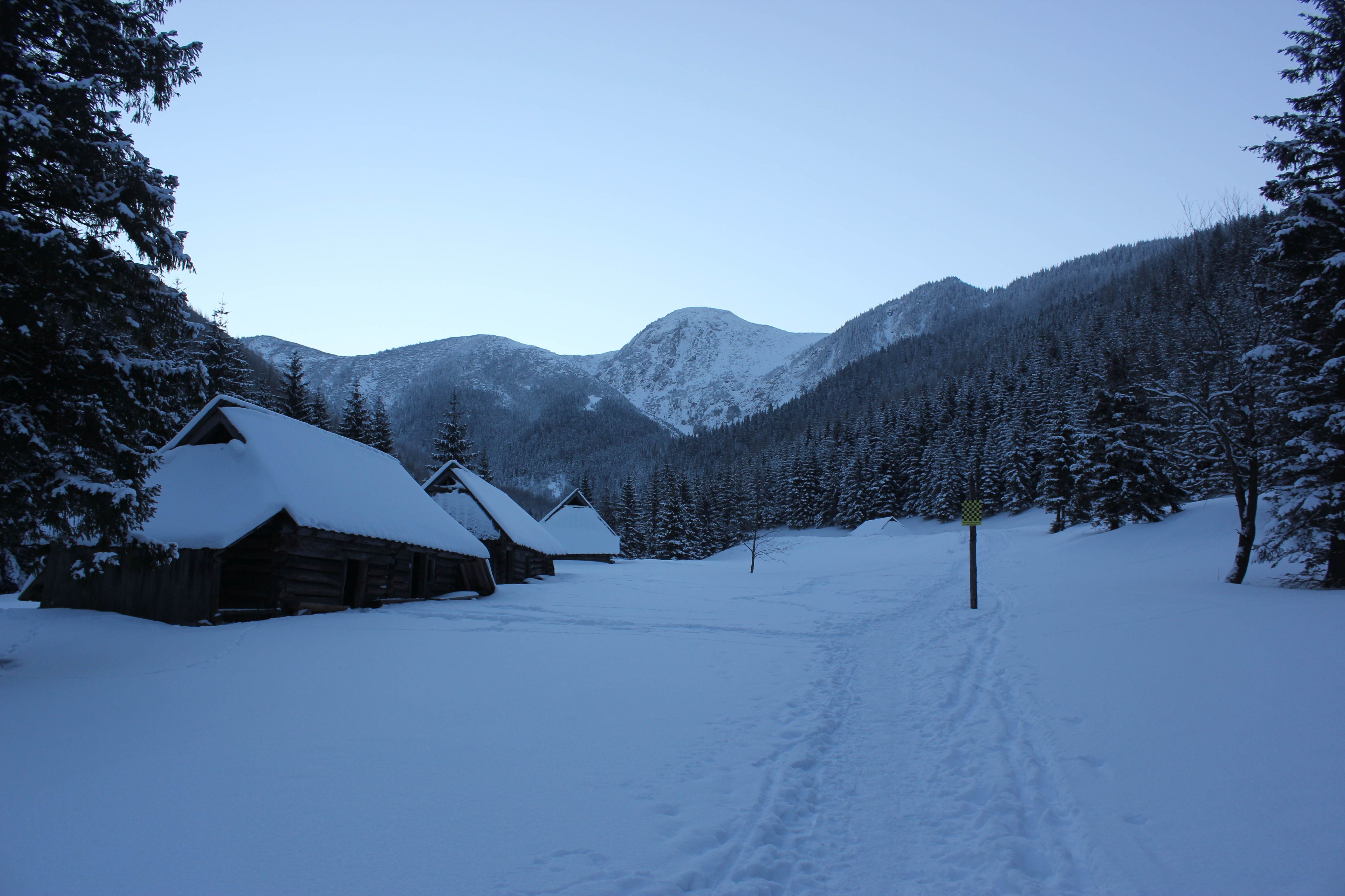 Jaworzynka Clearing